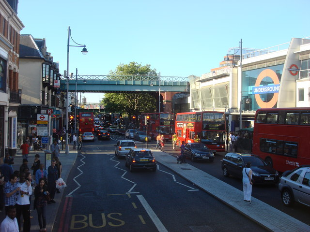 A view of Brixton Road looking north; Brixton tube station to the right, and the high rail bridge of the South London Line above the street.